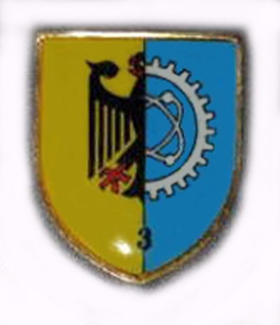 Corps Maintenance Command III